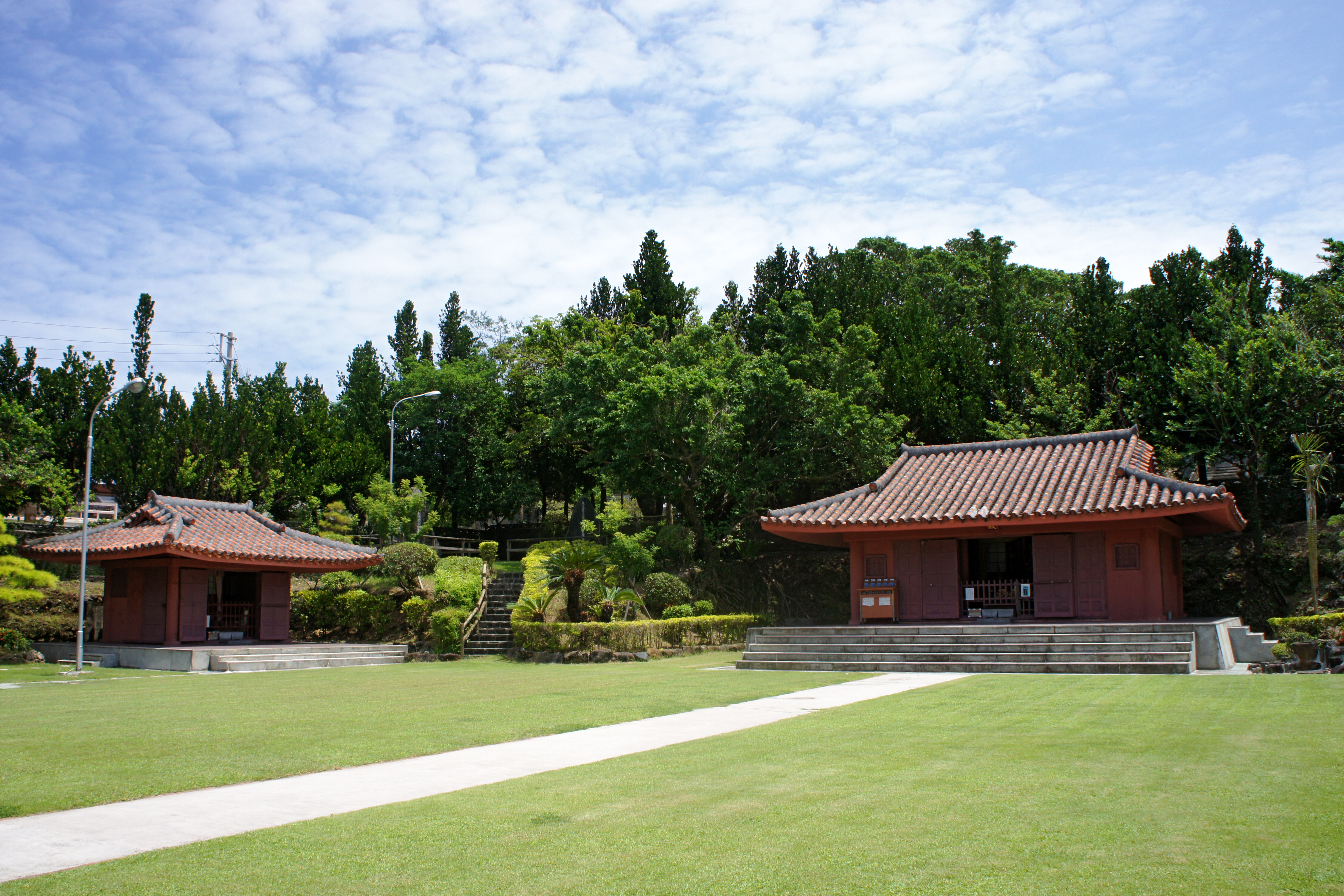 Shiseibyō on Tensonbyo-chi in Naha, Okinawa prefecture, Japan.